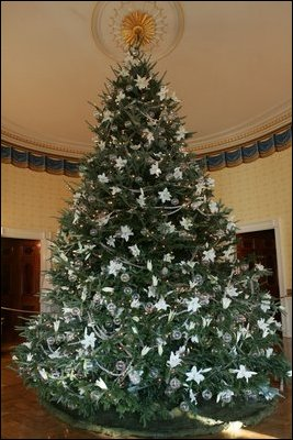 The 2005 White House Christmas Tree, a large Fraser Fir, is seen fully decorated in the Blue Room of the White House, Wednesday, Nov. 30, 2005.